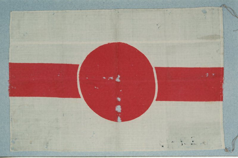 old japan post flag